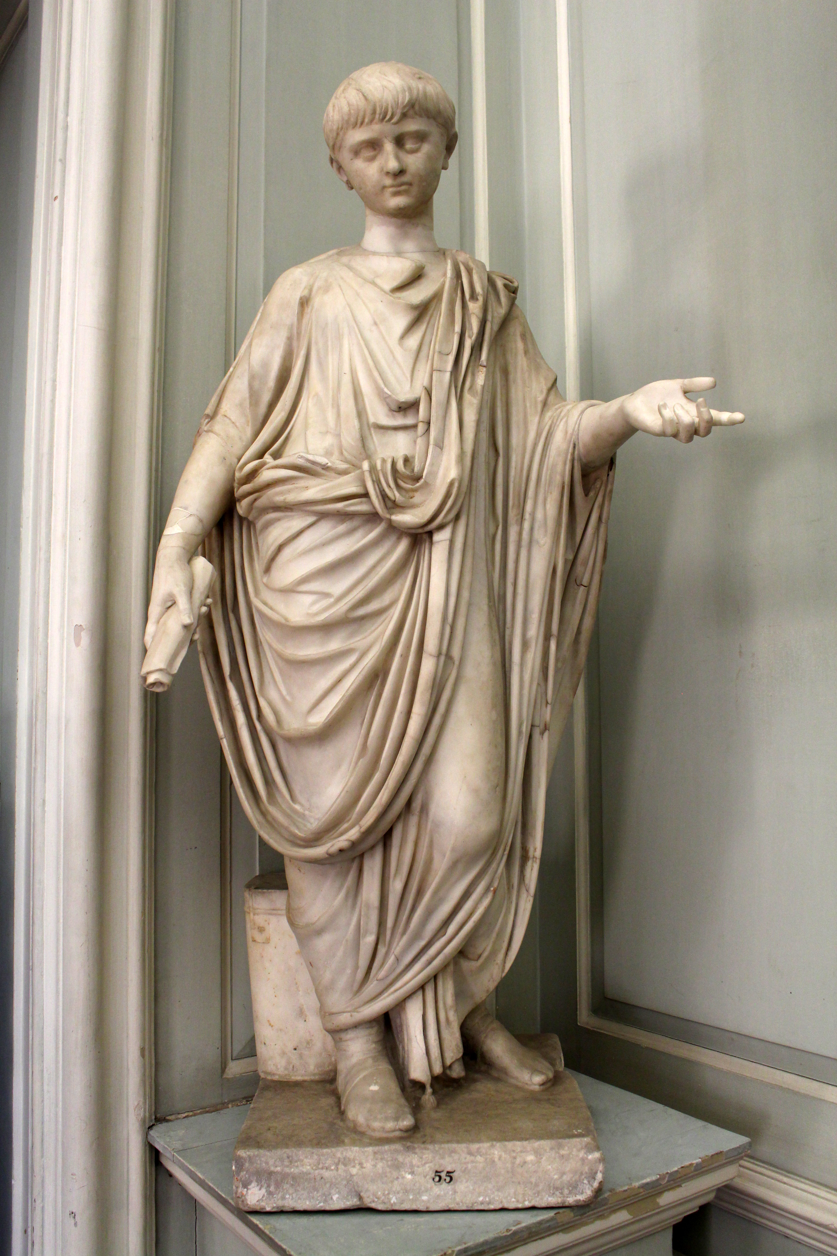 Statue of Nero as a boy, 1st century AD